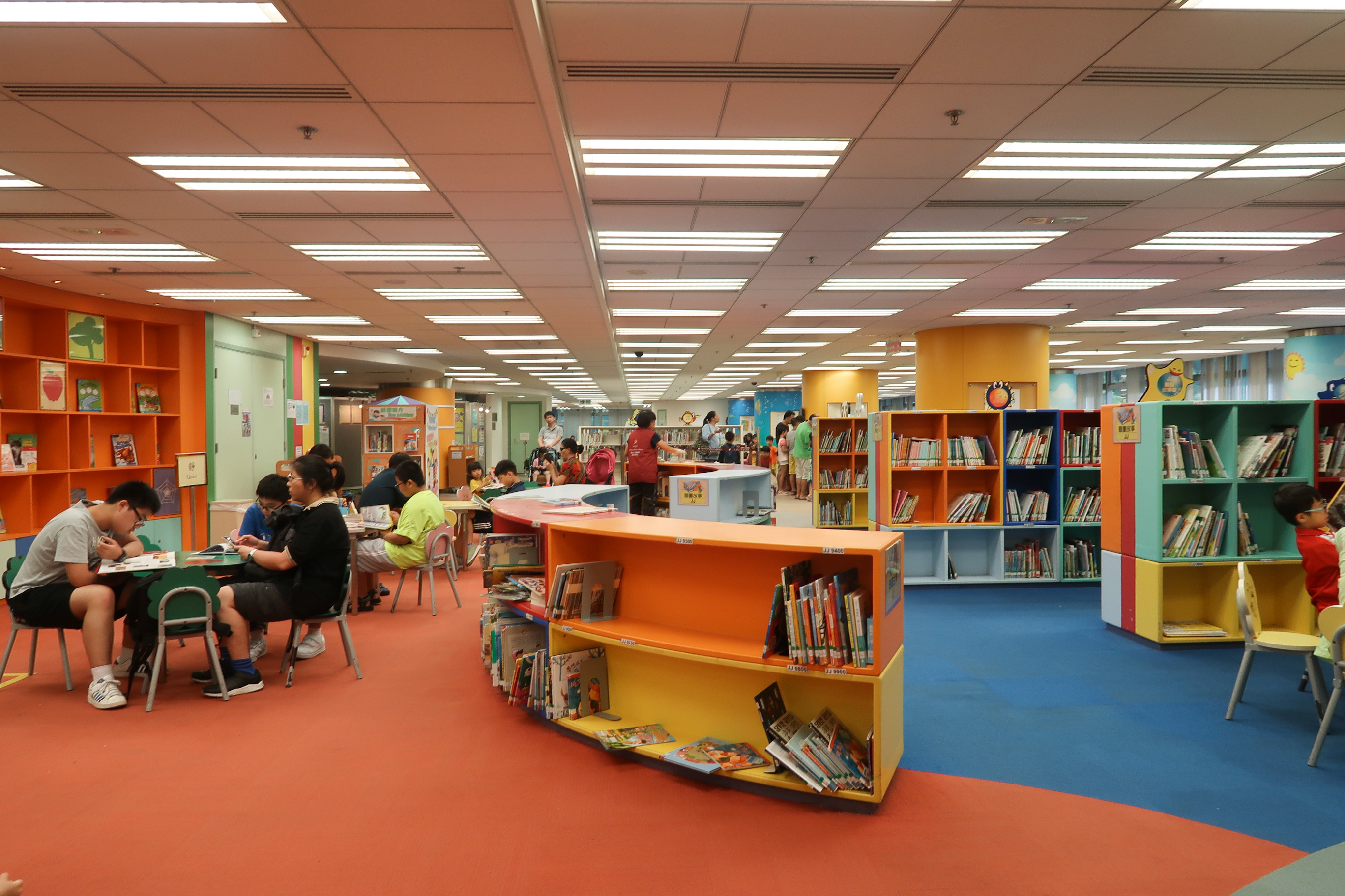 Tai Po Public Library Children Library